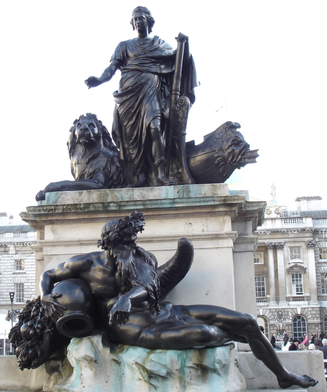 Statue Of George III & Neptune-Somerset House-Strand-London